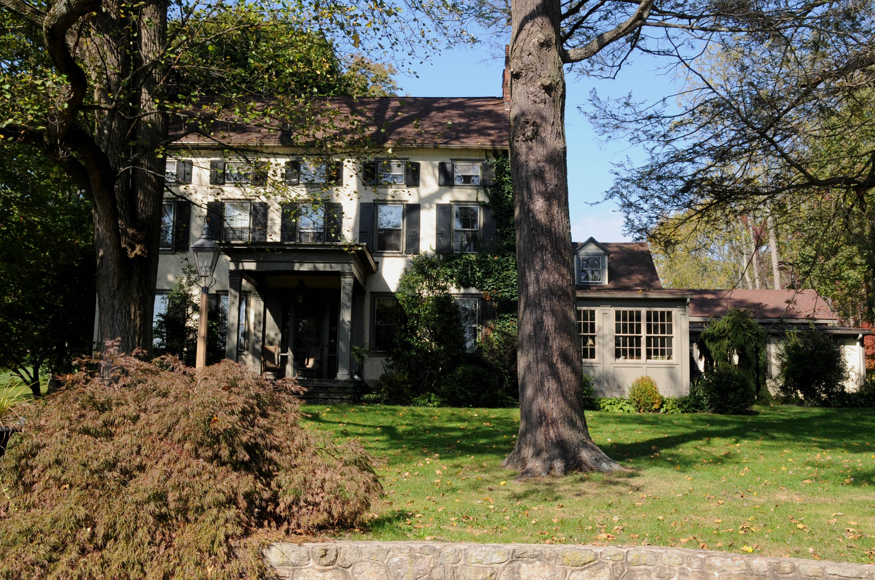 LONGLAND - ALSO KNOWN AS MARGARET MEAD FARM DATING CIRCA 1844